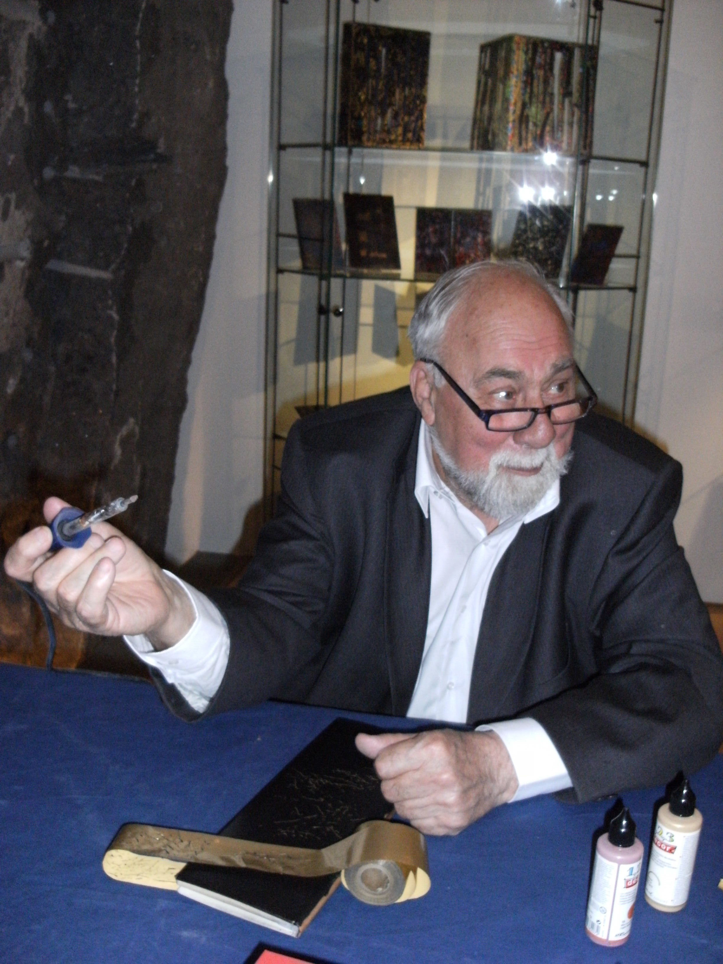 The bookbinder, book cover artist and book artist August Kulche during the Exposition Éphémère belge of the Bibliotheca Wittockiana 2010 in Brussels during the gilding of a cover with a soldering iron